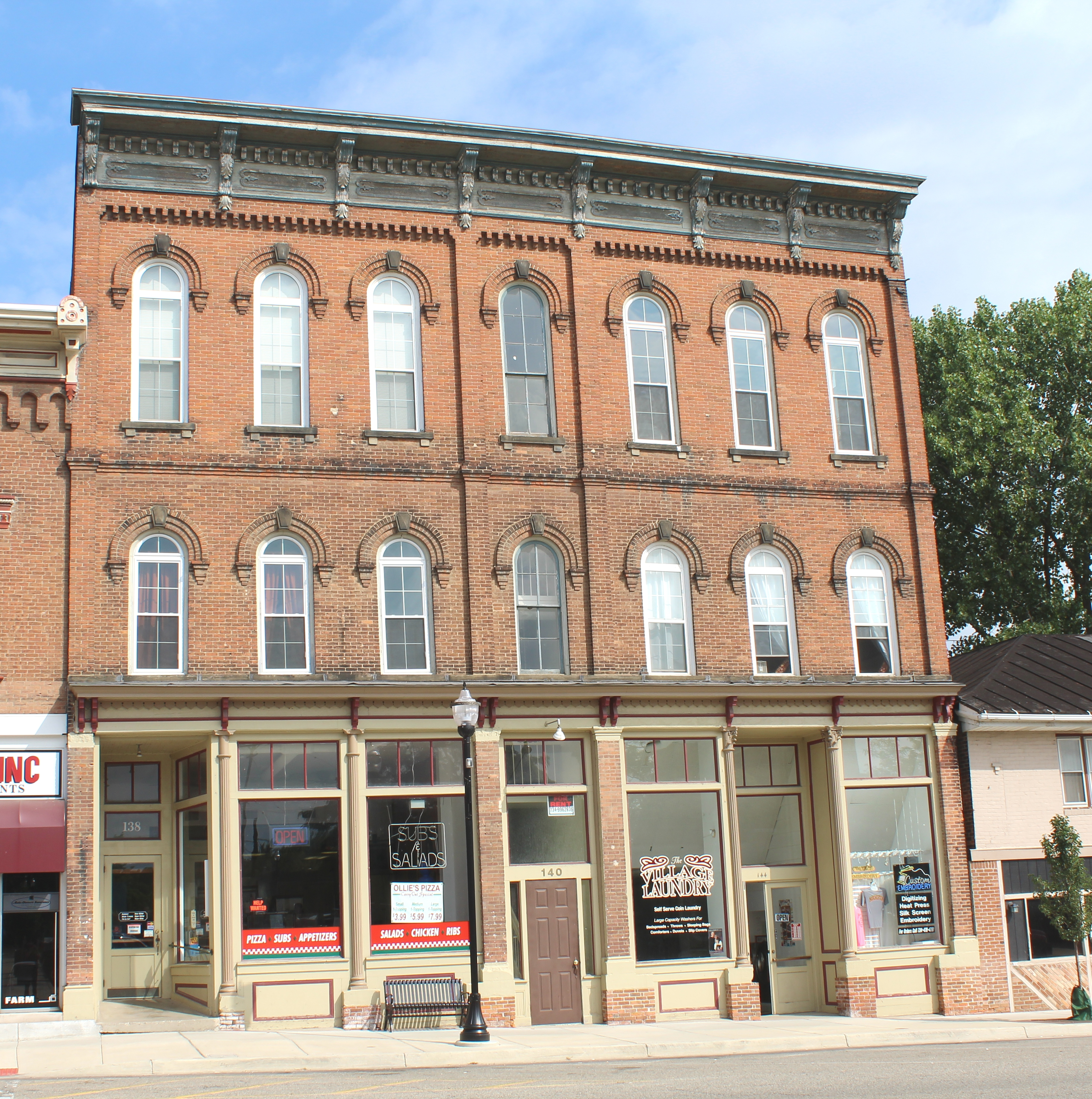 Goodyear Block historic building. The building was constructed in 1867 and is listed in the National Register of Historic Places. For more information on the building